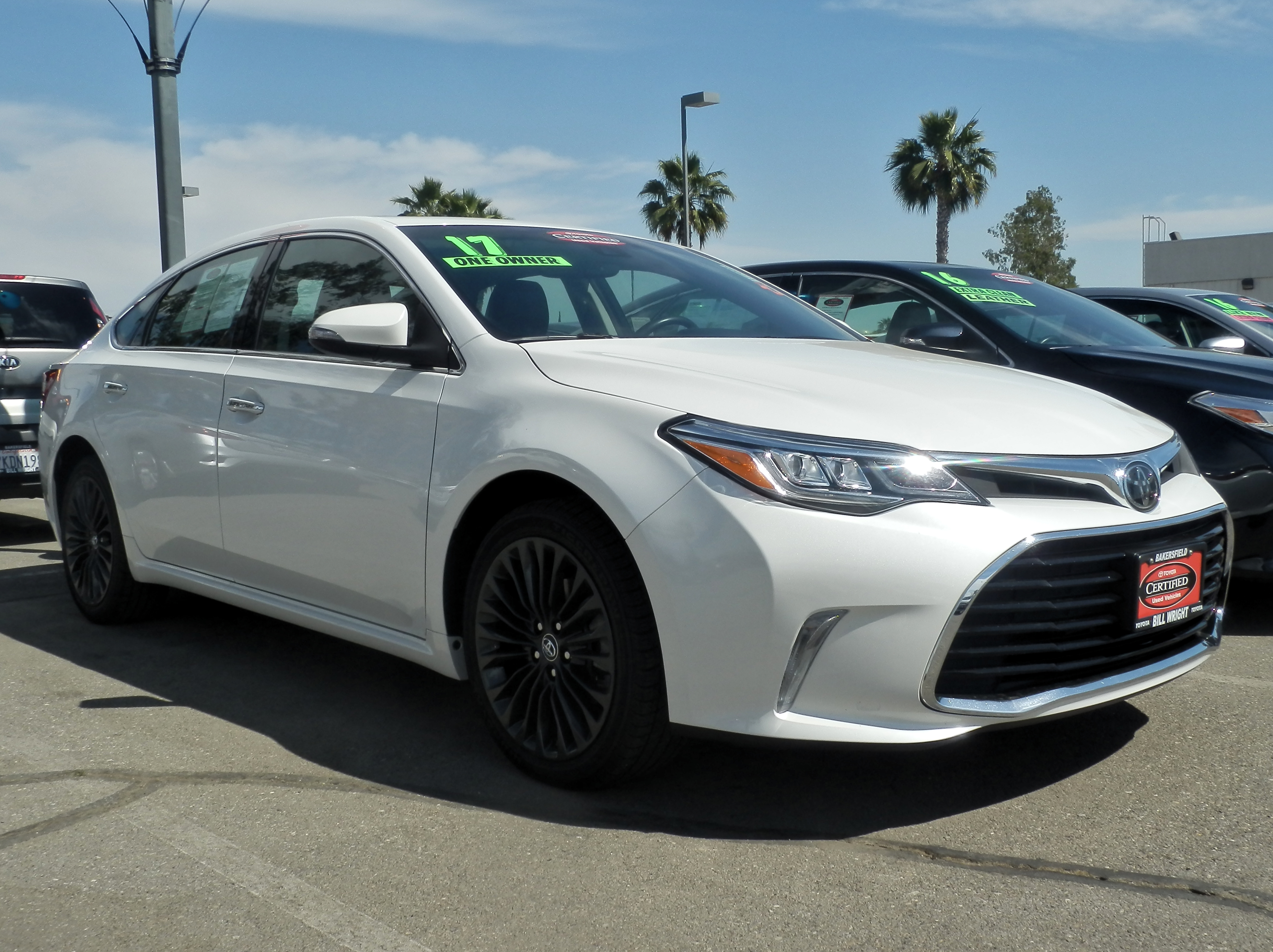 Toyota Avalon in Bakersfield